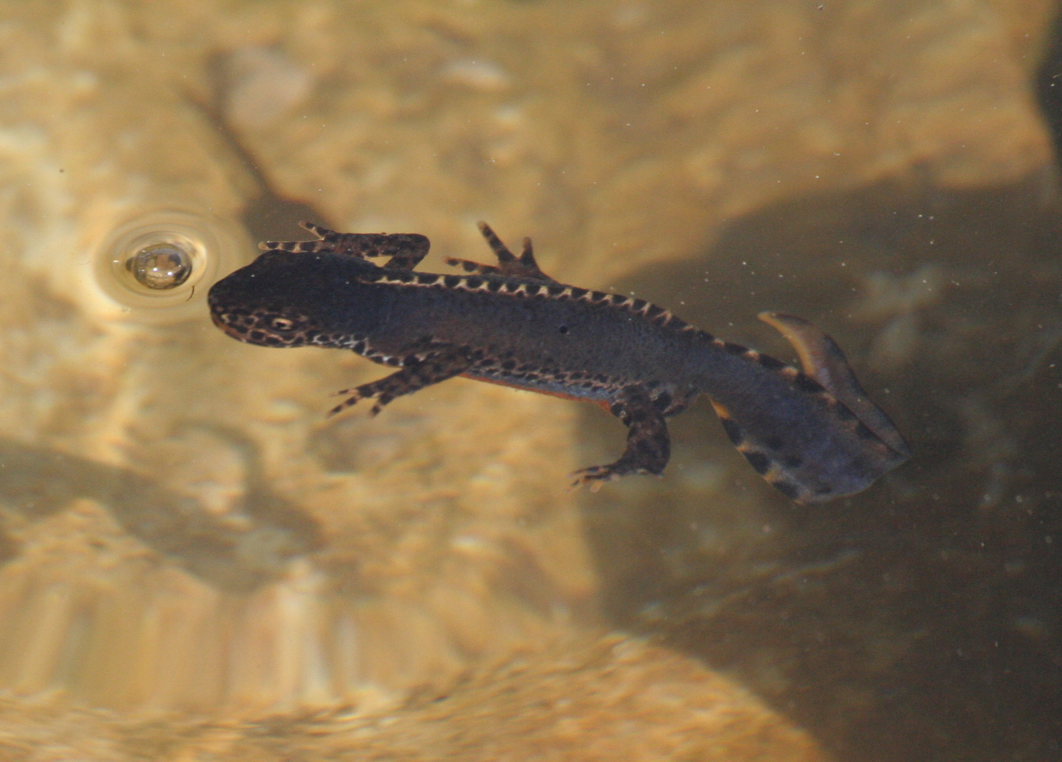 Alpine newt in a pool near Spitzingsee in Bavaria